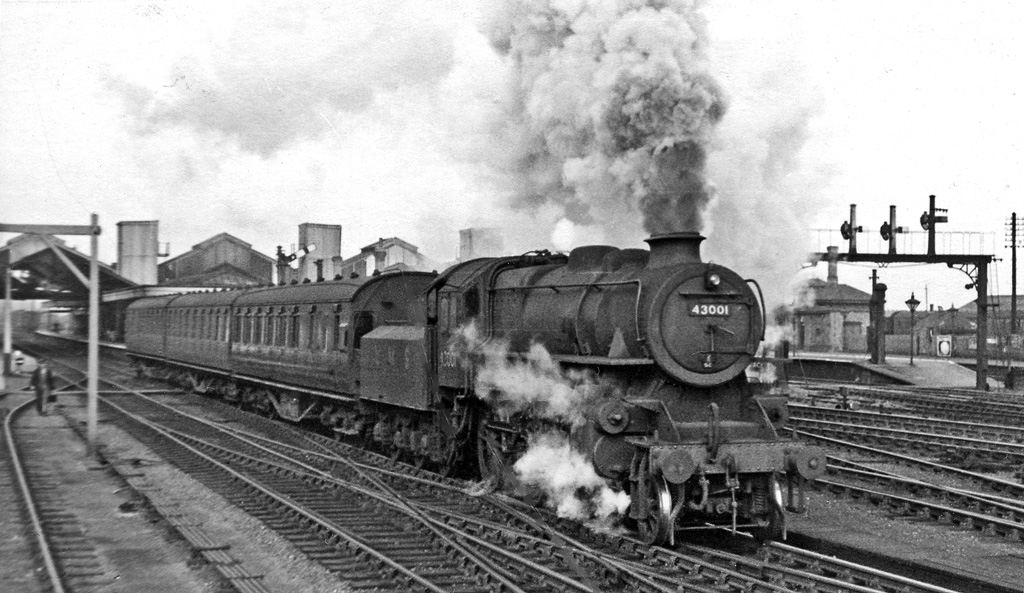 A local train for Banbury leaves Bletchley Station. View northward, towards Rugby etc., also Bedford and Cambridge to the right; ex-London & North Western West Coast Main Line. The locomotive is one of the then new Ivatt Class 4MT 2-6-0s, No. 43001. The train is leaving from an Up Main platform rather than from the Cambridge line platform which is visible over on the right.